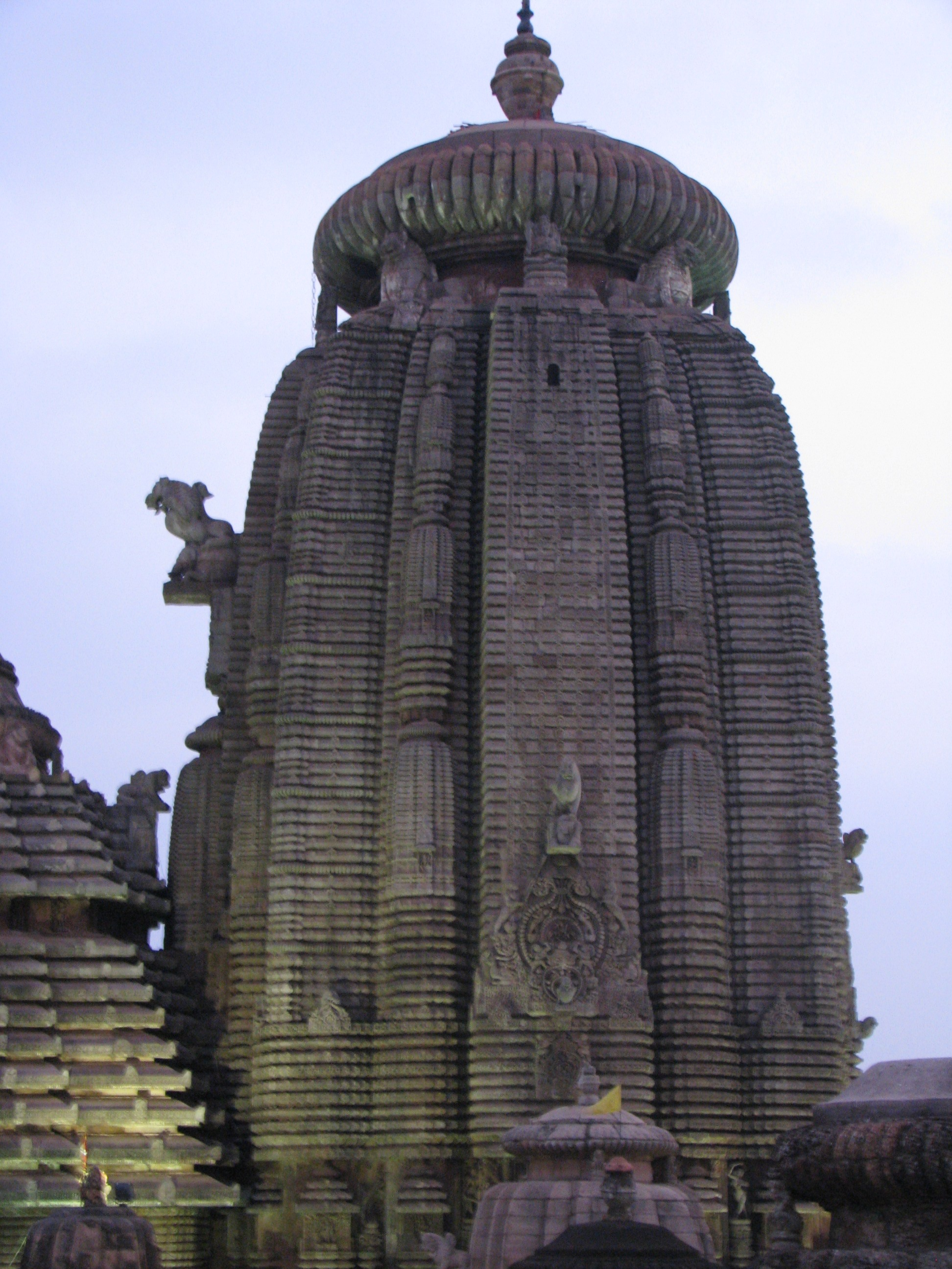 This media file is uploaded with Malayalam loves Wikimedia event.